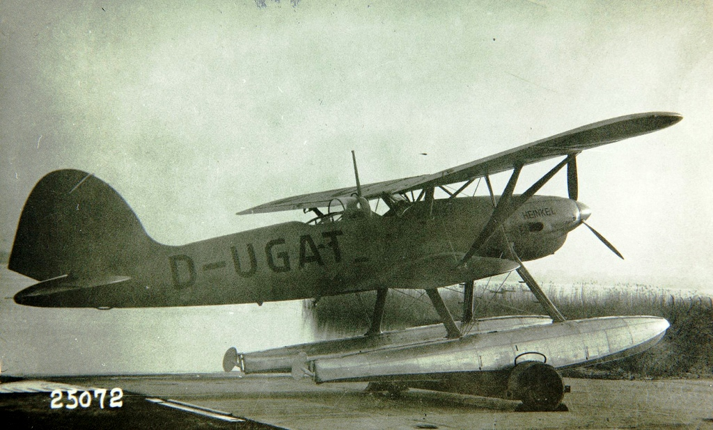 Heinkel He 114 V2